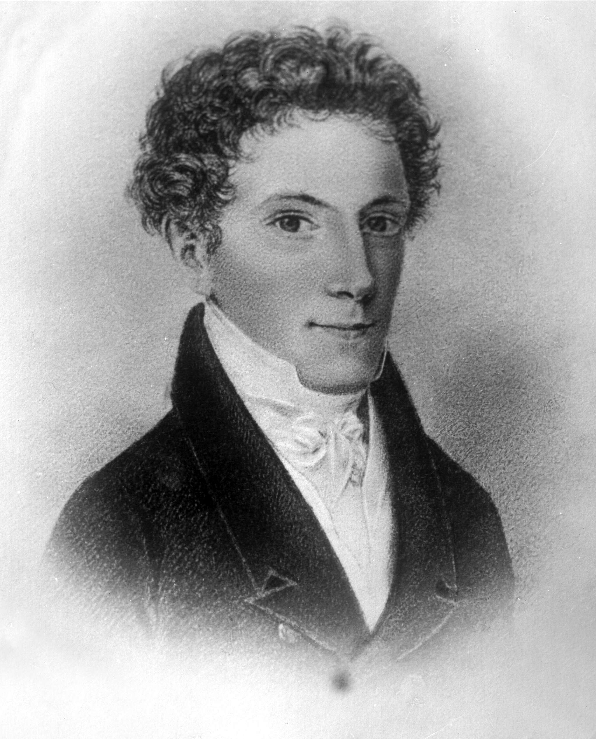 A member of the Fegth family of Norway.